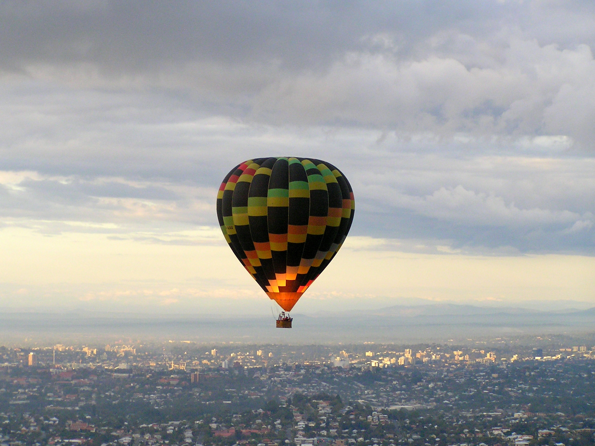 Hot air balloon over Brisbane, Australia.